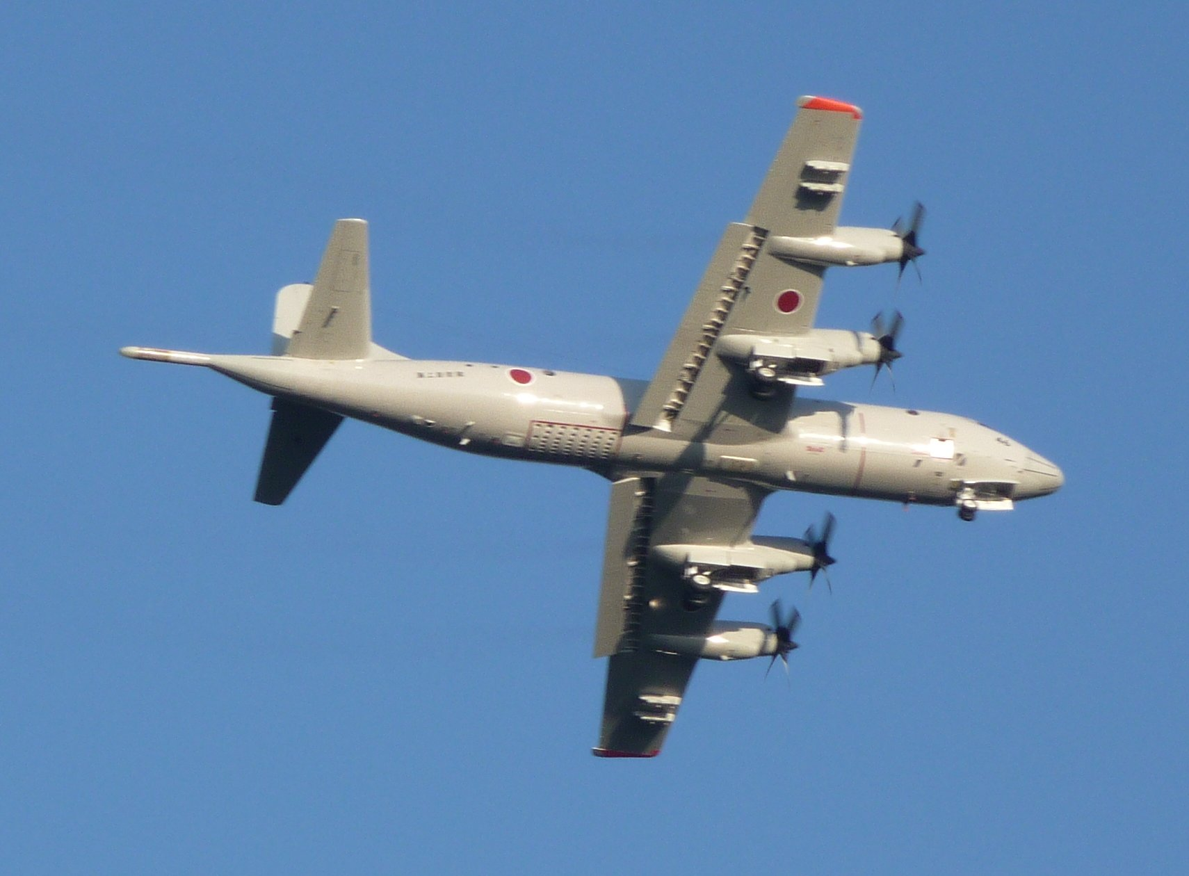 P-3C JMSDF-Maritime patrol aircraft, exercise flight over the border zone of Matsudo, Kamagaya and Ichikawa from Shimofusa Air Base (Camera manufacturer: Panasonic, Camera model DMC-TZ5, Exposure time 1/400 sec (0.0025), F Number f/4.9, ISO speed rating 100)